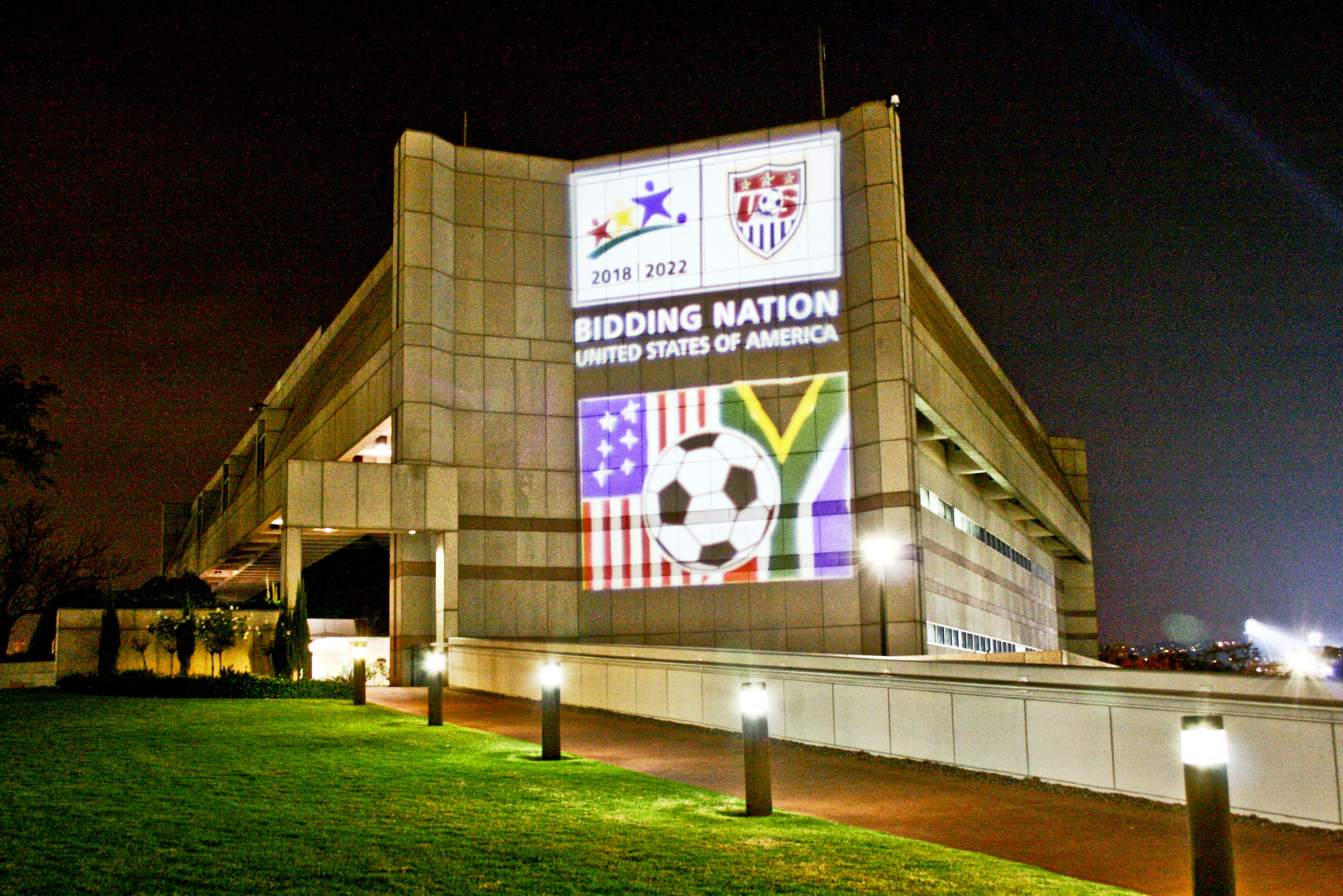 The U.S. Embassy Pretoria in South Africa is photographed at night, displaying the lights and bid logo for the World Cup in 2018 and 2022 on June 21, 2010. [State Department photo/ Public Domain]